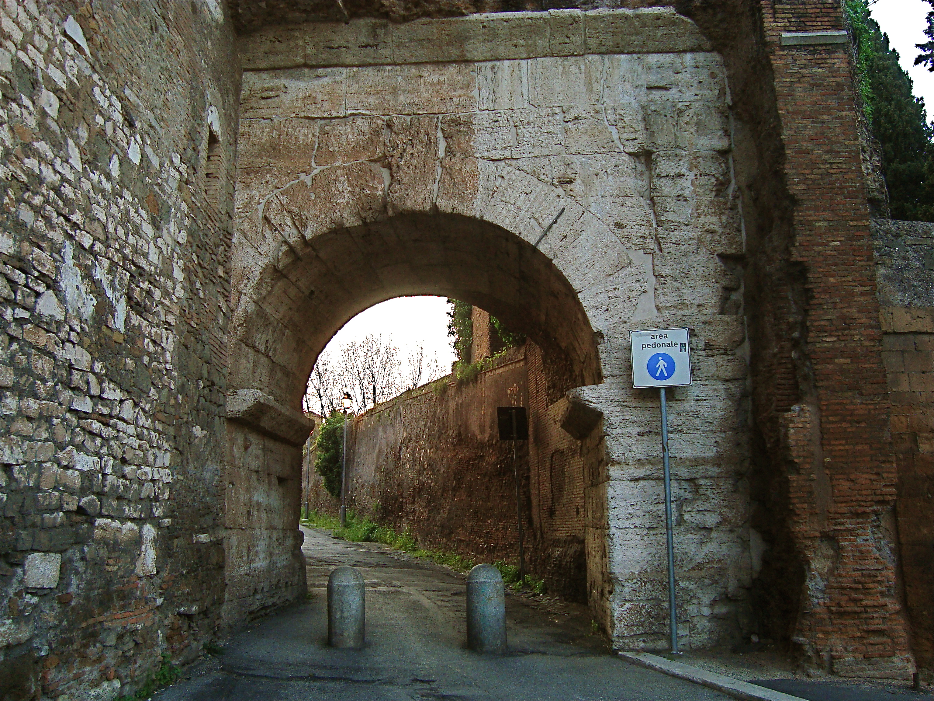 Face externe de la porte Caelimontana avec l'arc de Dolabella et Silanus en haut du Clivus Scauri à Rome